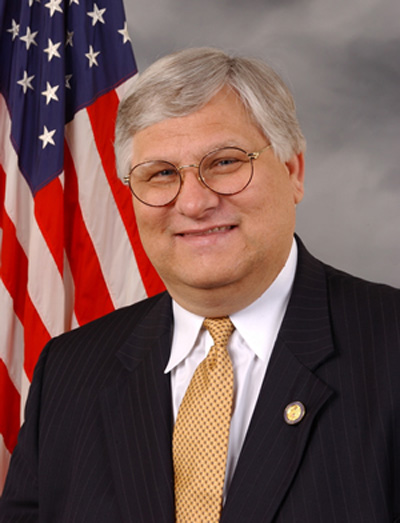 Kenny Marchant, member of the United States House of Representatives.